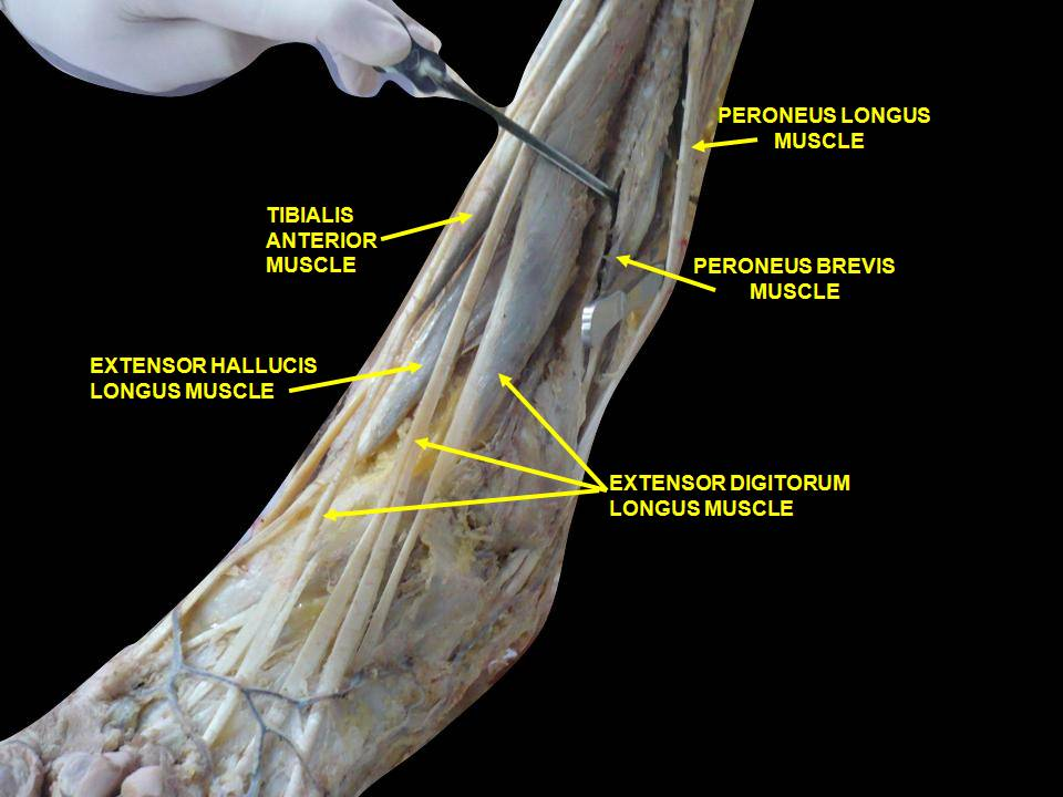 Anatomical dissections